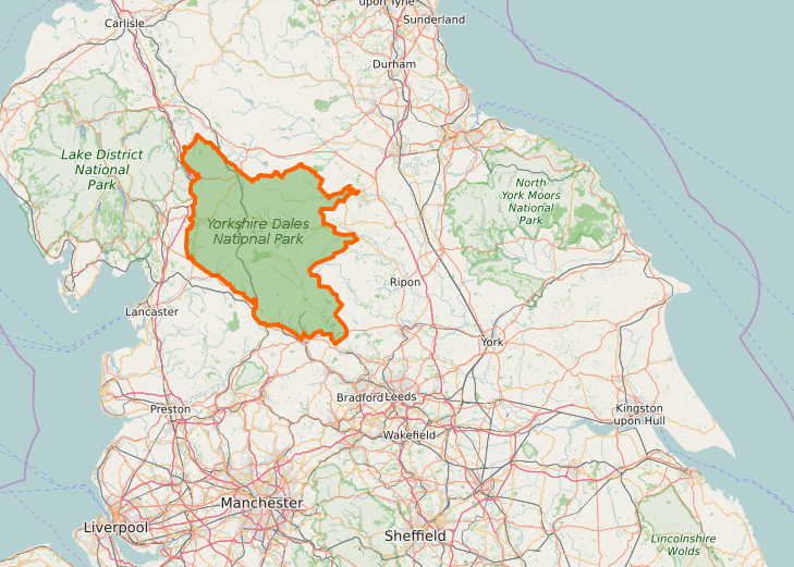 Overvie map of the Yorkshire Dales National Park